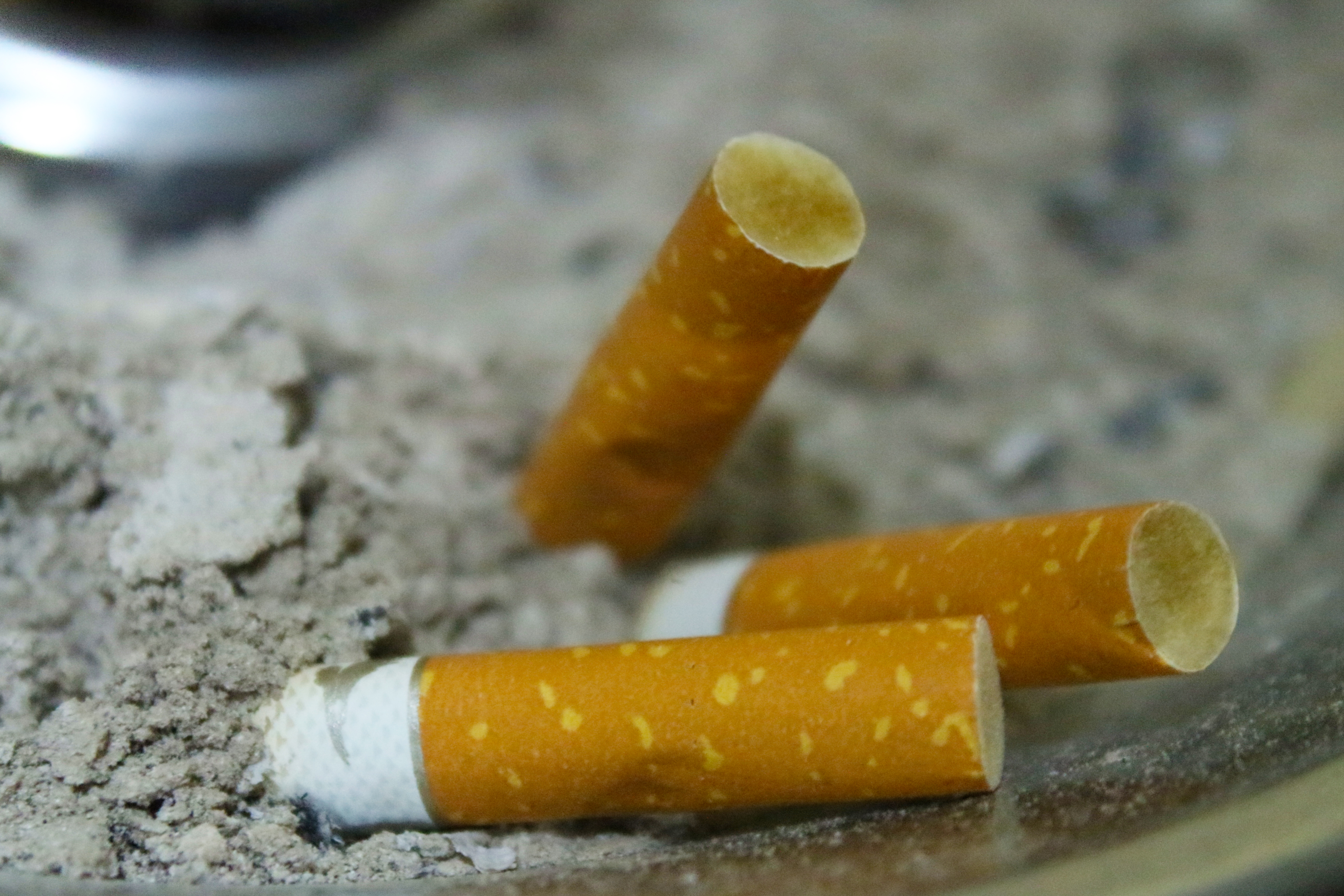 Cigarette butts in ash